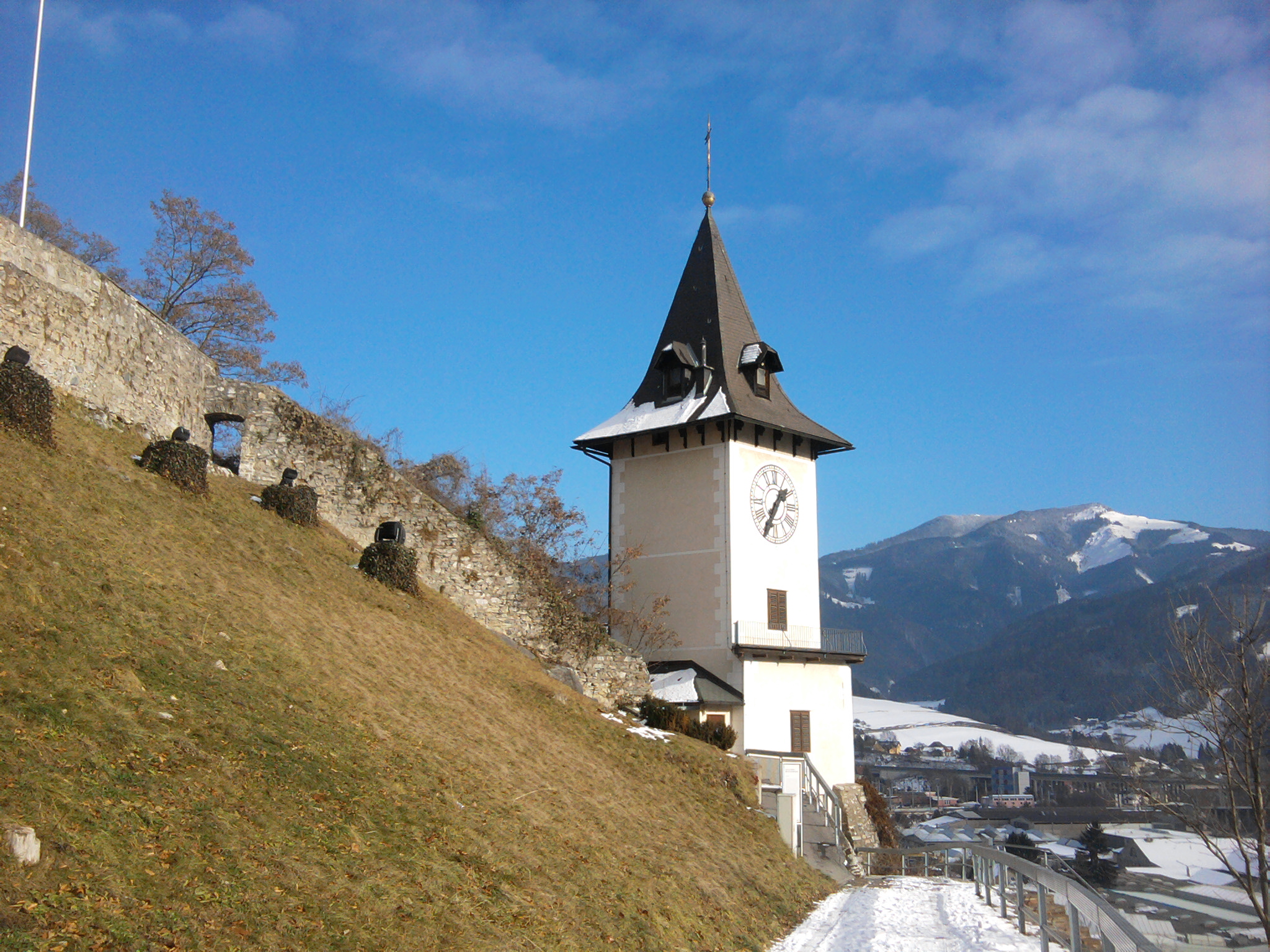 Uhrturm (clock tower) in Bruck an der Mur, Austria. View from west together with piece of castle wall (from Burgruine Landskron).